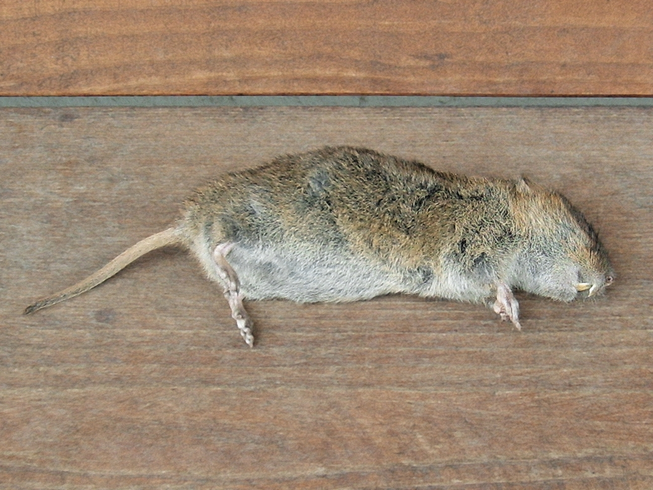 Arvicola terrestris from Interlaken, Switzerland.